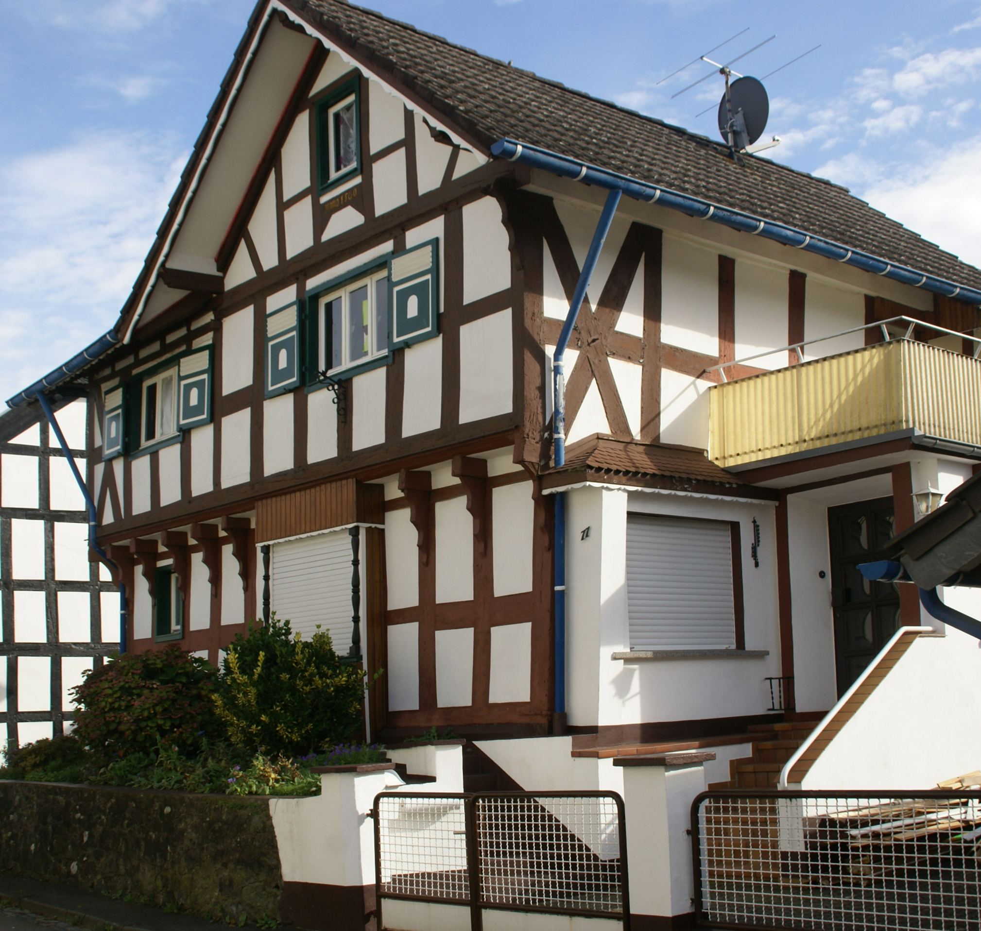 Half-timbered house in Heisterbacherrott, Petrusstraße 11. Dated back to the year 1560, it is assumed to be the oldest timber framed house within the boundaries of the town of Königswinter.